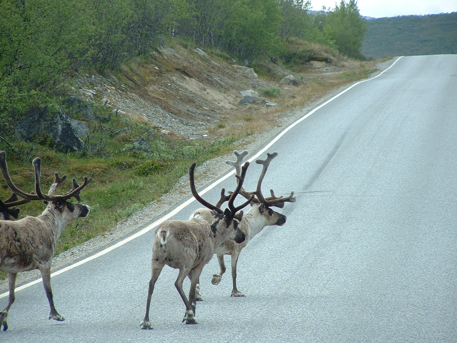 Reindeer on the highway 21 (E8) near Kilpisjarvi in Enontekiö, Finland